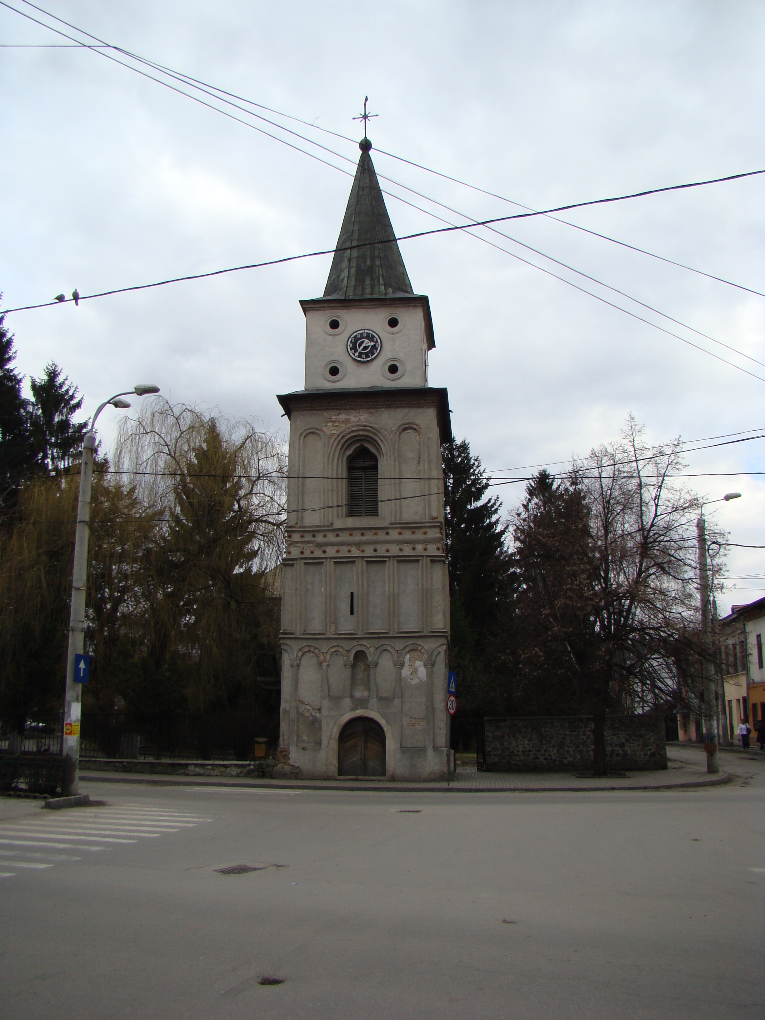 Made by myself on a tour in the city during spring 2008, so anyone can use it as they whish.